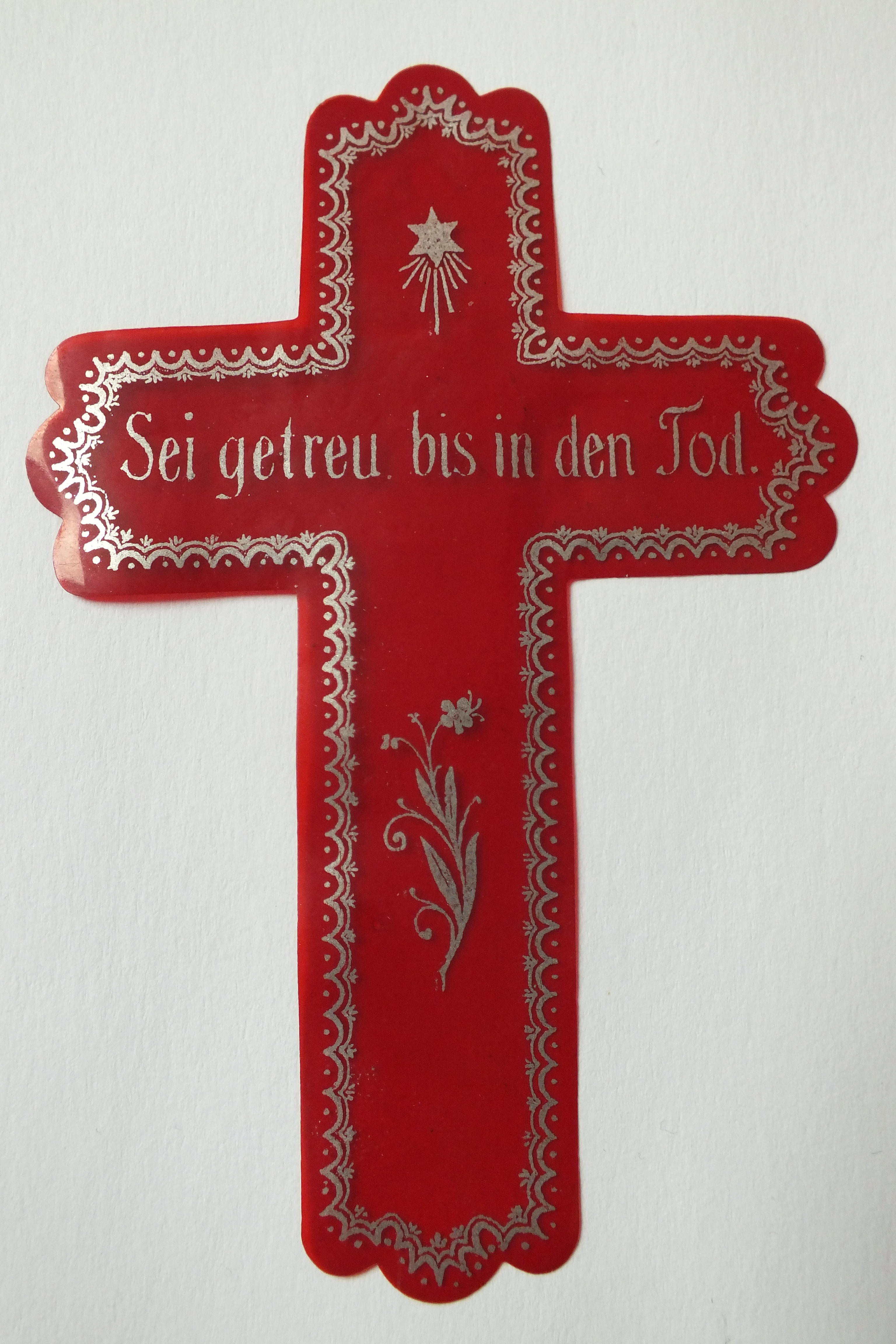 Gelatine picture, Germany, end of 19th century, cross, red, probably coloured gelatine (in earlier times such pictures were made of the swim bladder of beluga), body heat makes it roll up when put on palm or breathed upon, white print: Sei getreu bis in den Tod. (Be thou faithful unto death.), used as devotional picture and to reward school children in Religious Education.